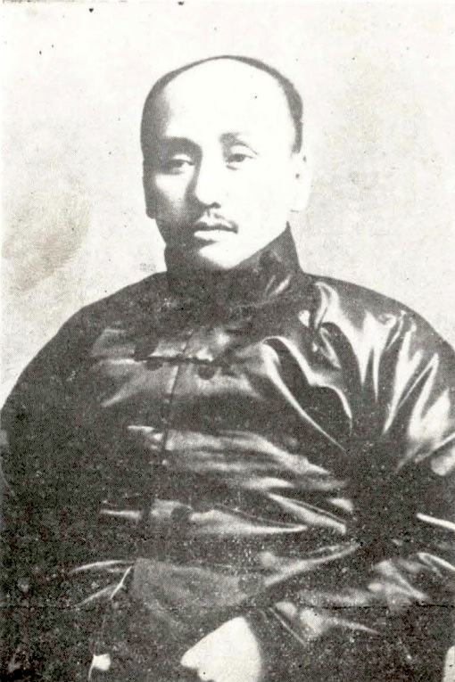 Gan Hun-lian 顏雲年